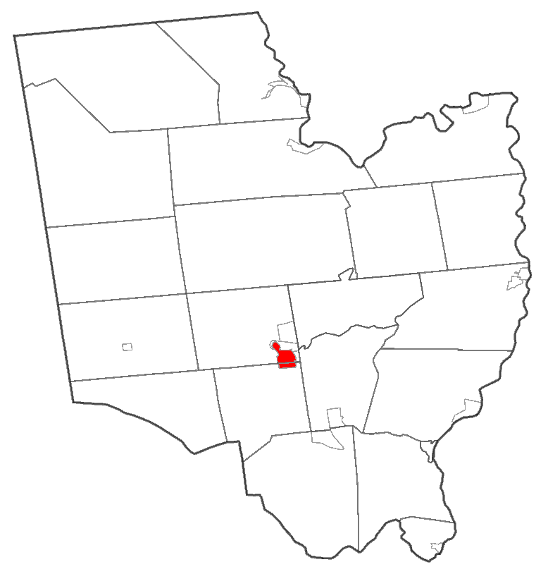 Map of Saratoga County highlighting Ballston Spa